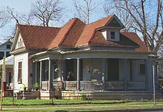 Willow-Spence Streets Historic District, Austin, Texas (house at NE corner of Willow and San Marcos Streets)